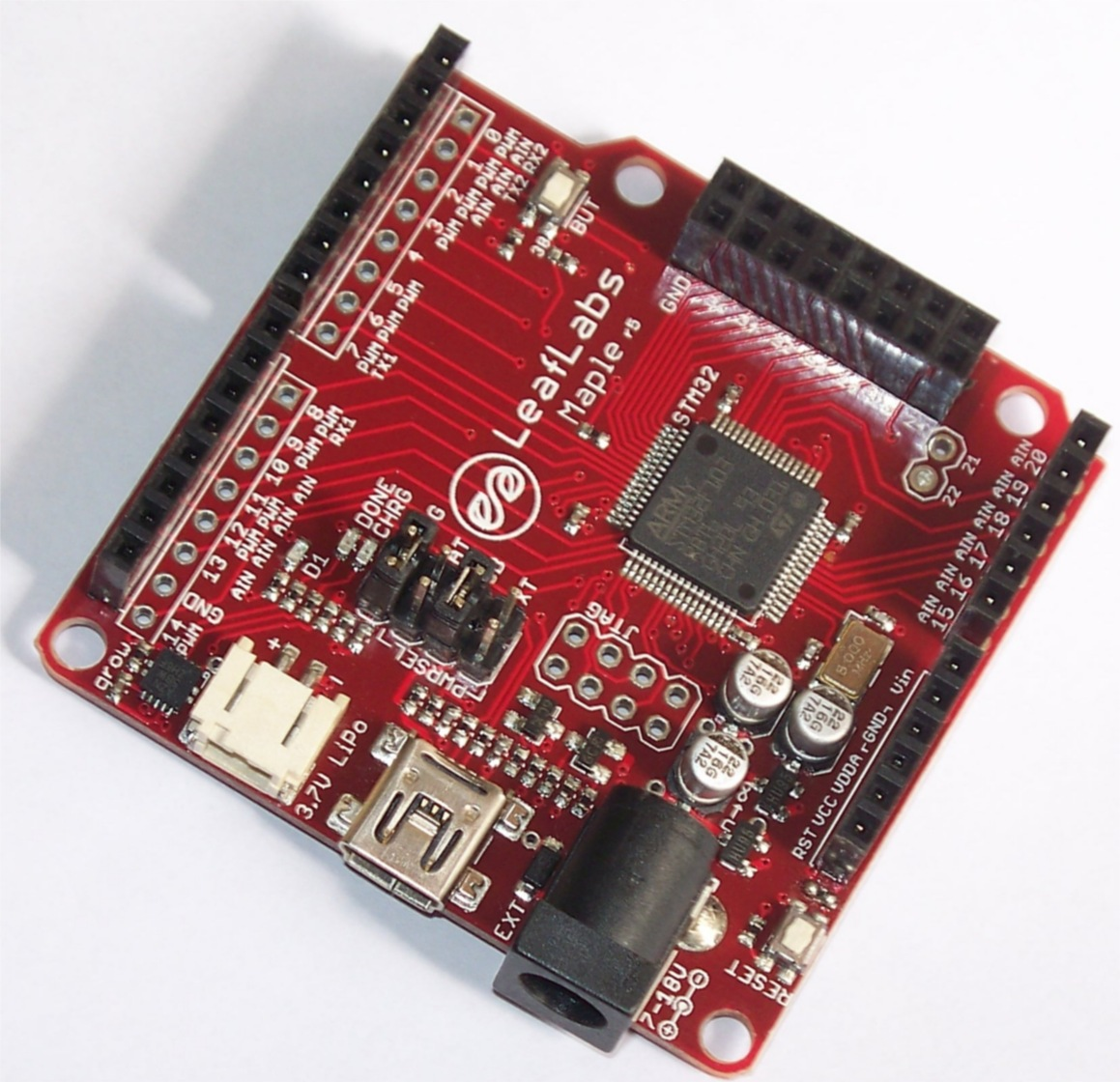 Lealabs Maple Development Board (Arduino like API) with STM32F103RBT6 microcontroller